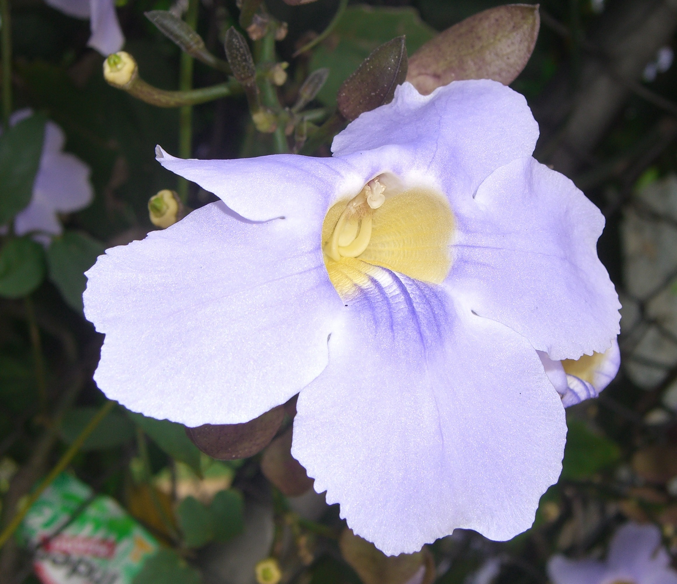 Please report references to .